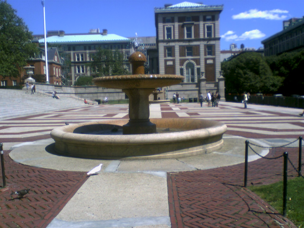 A fountain at Columbia University